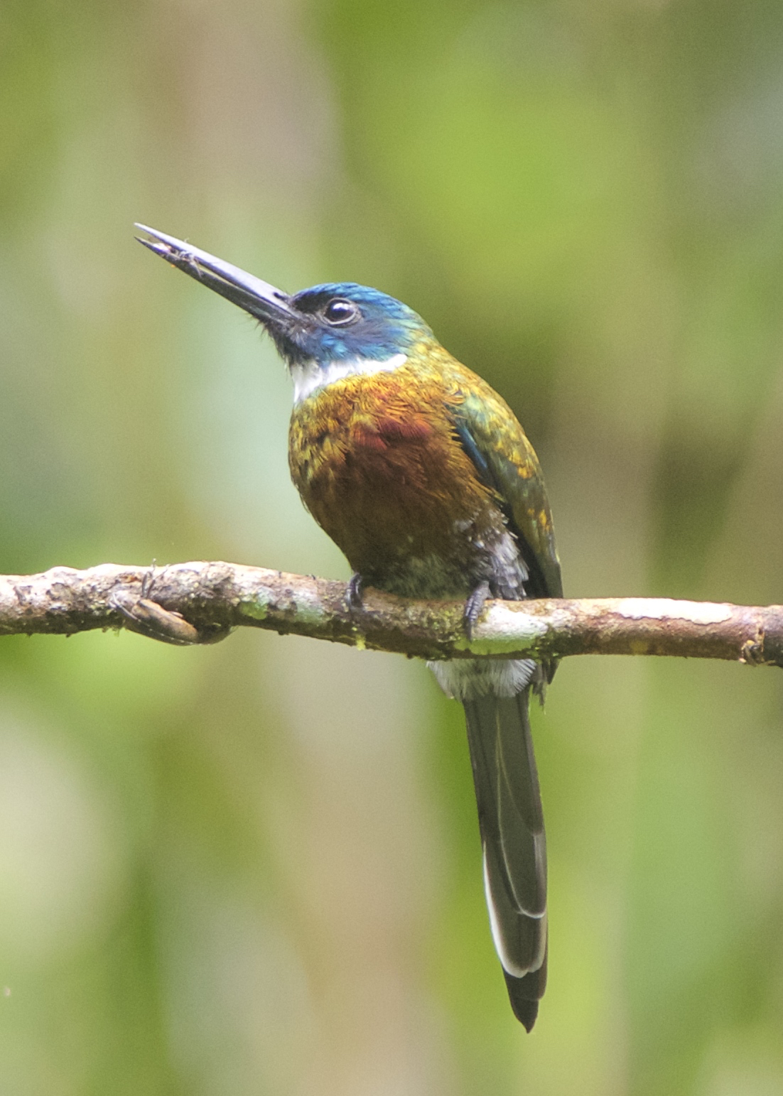 A Bronzy jacamar at La Estación de Bioversidad de Tiputini in the Ecuadorian Amazon